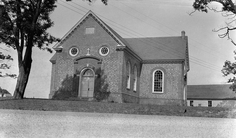 Farnham Church (Episcopal), State Routes 602 & 607, Farnham (Richmond County, Virginia) cropped, HABS VA,80-____,1-1 This file comes from the Historic American Buildings Survey (HABS), Historic American Engineering Record (HAER) or Historic American Landscapes Survey (HALS). These are programs of the National Park Service established for the purpose of documenting historic places. Records consist of measured drawings, archival photographs, and written reports. When reusing please credit: Library of Congress, Prints & Photographs Division, VA-562 This tag does not indicate the copyright status of the attached work. A normal copyright tag is still required. See Commons:Licensing. This work is in the public domain in the United States because it is a work prepared by an officer or employee of the United States Government as part of that person’s official duties under the terms of Title 17, Chapter 1, Section 105 of the US Code. Note: This only applies to original works of the Federal Government and not to the work of any individual U.S. state, territory, commonwealth, county, municipality, or any other subdivision. This template also does not apply to postage stamp designs published by the United States Postal Service since 1978. (See § 313.6(C)(1) of Compendium of U.S. Copyright Office Practices). It also does not apply to certain US coins; see The US Mint Terms of Use. This file has been identified as being free of known restrictions under copyright law, including all related and neighboring rights.